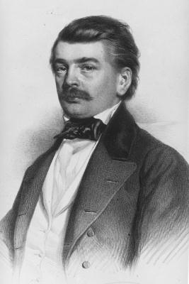 Franc Miklošič, lithography by Adolf Dauthage, 1853.